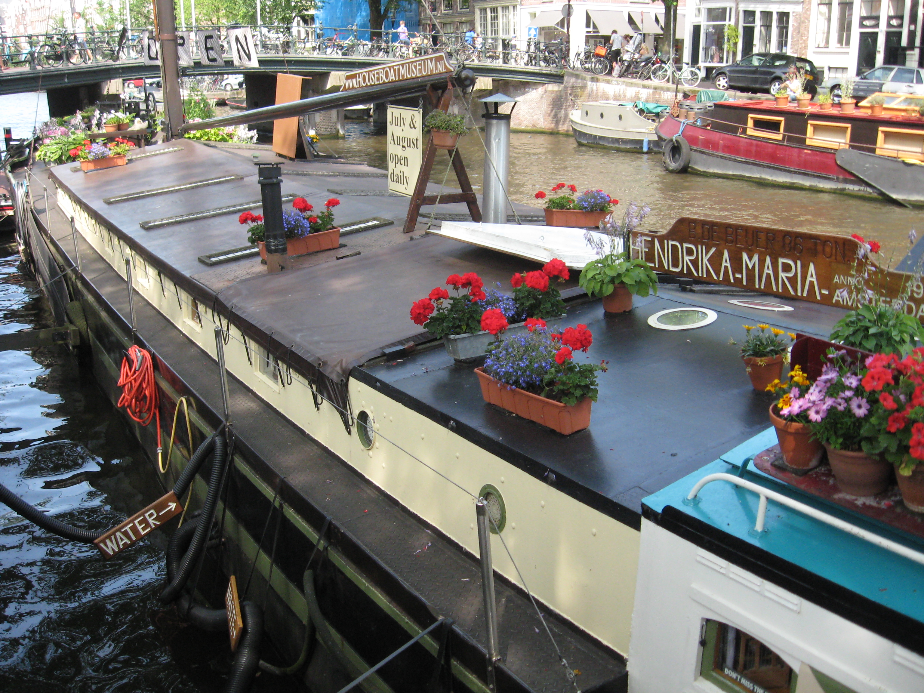 Hendrika Maria, Houseboat museum, Amsterdam, Netherlands check usage